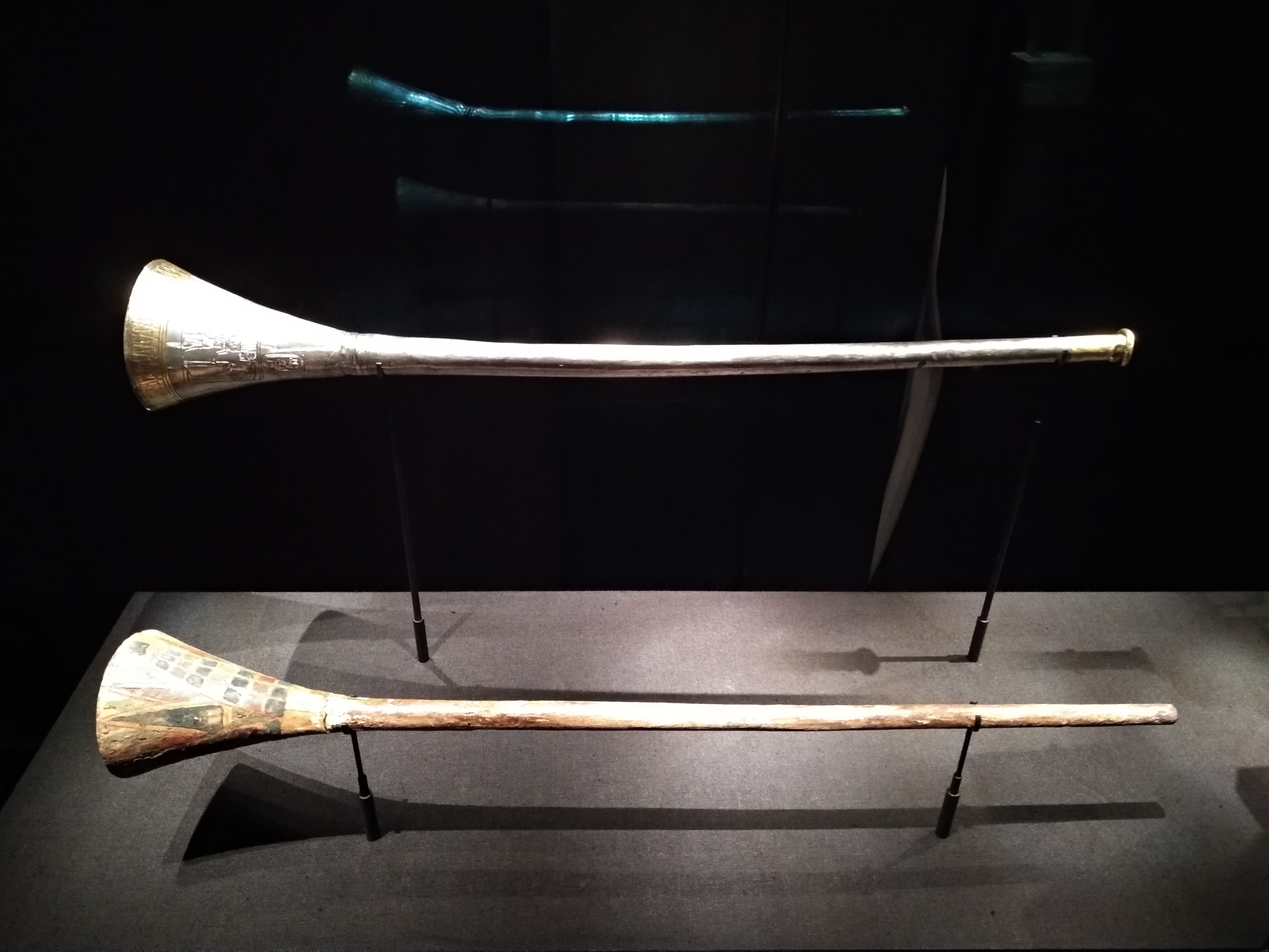 This trumpet includes the engraving of the name and image of Tutankhamun and those of three gods. The musician used the wooden mute painted in bright colours to modulate the sound of the trumpet.